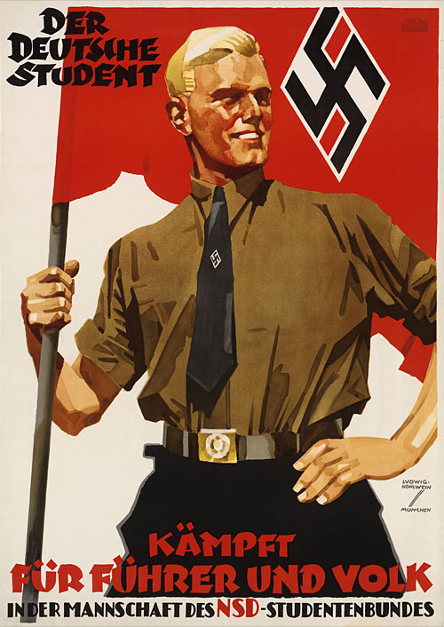 Der deutsche Student kämpft für Führer und Volk in der Mannschaft des NSD-Studentenbundes, propganda poster by Ludwig Hohlwein 1936, showing a heroic portrait of a member of the National Socialist German Students' League (Nationalsozialistischer Deutscher Studentenbund) in a Hitler Youth-like uniform, holding the swastika flag of the organization.